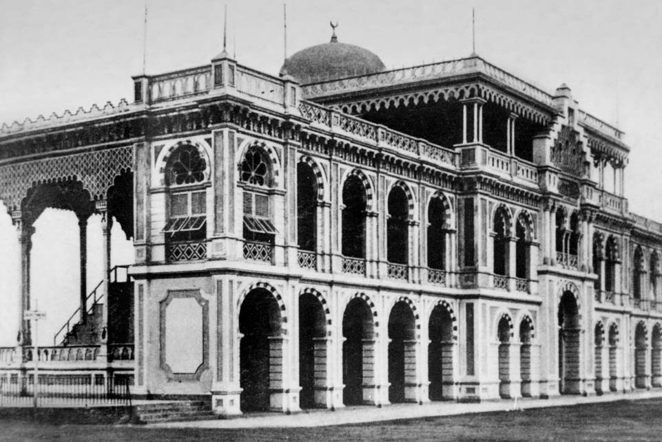 Santa Beatriz hippodrome in Lima, Peru